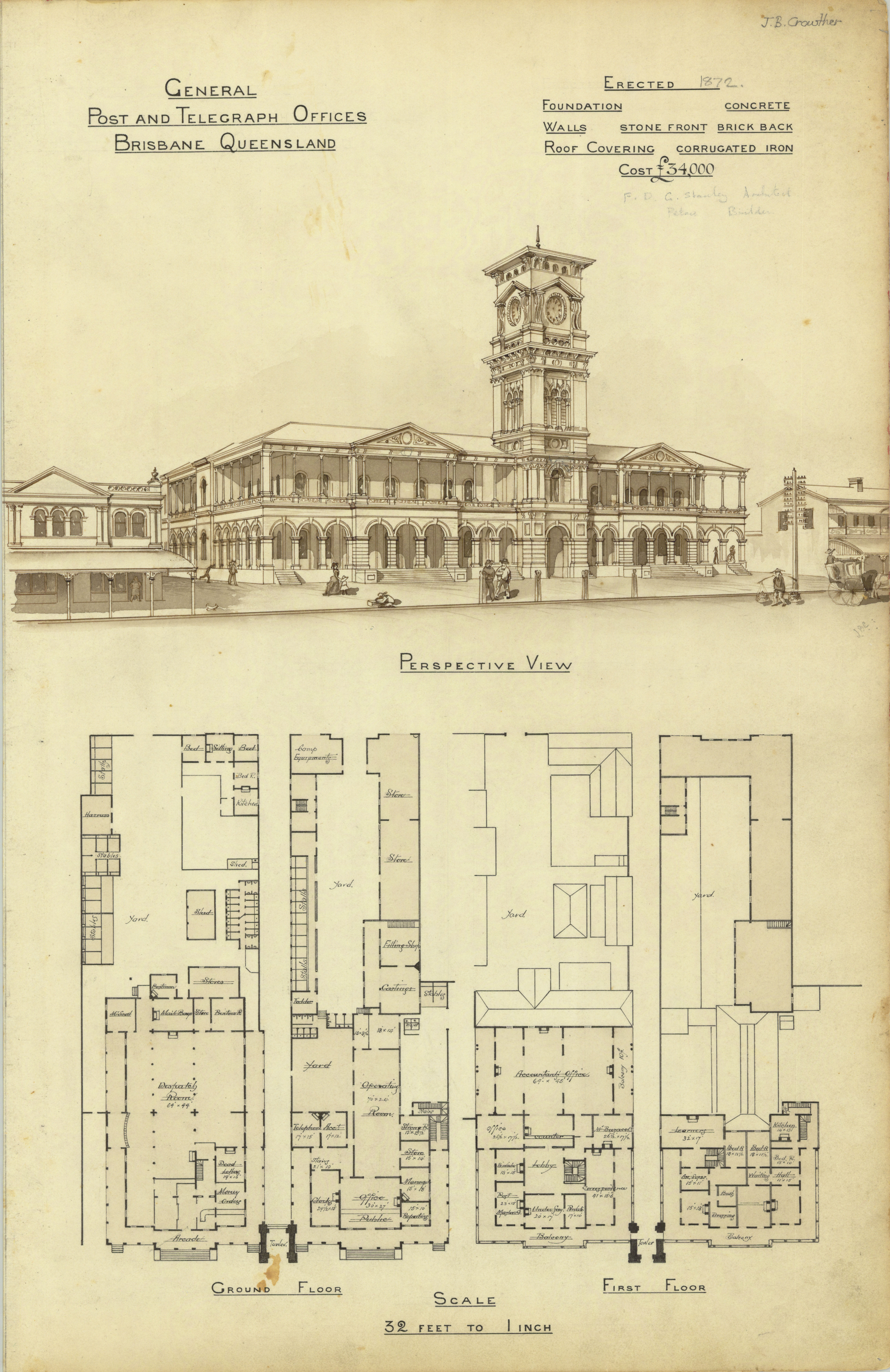 General Post & Telegraph Offices, Brisbane, erected 1872